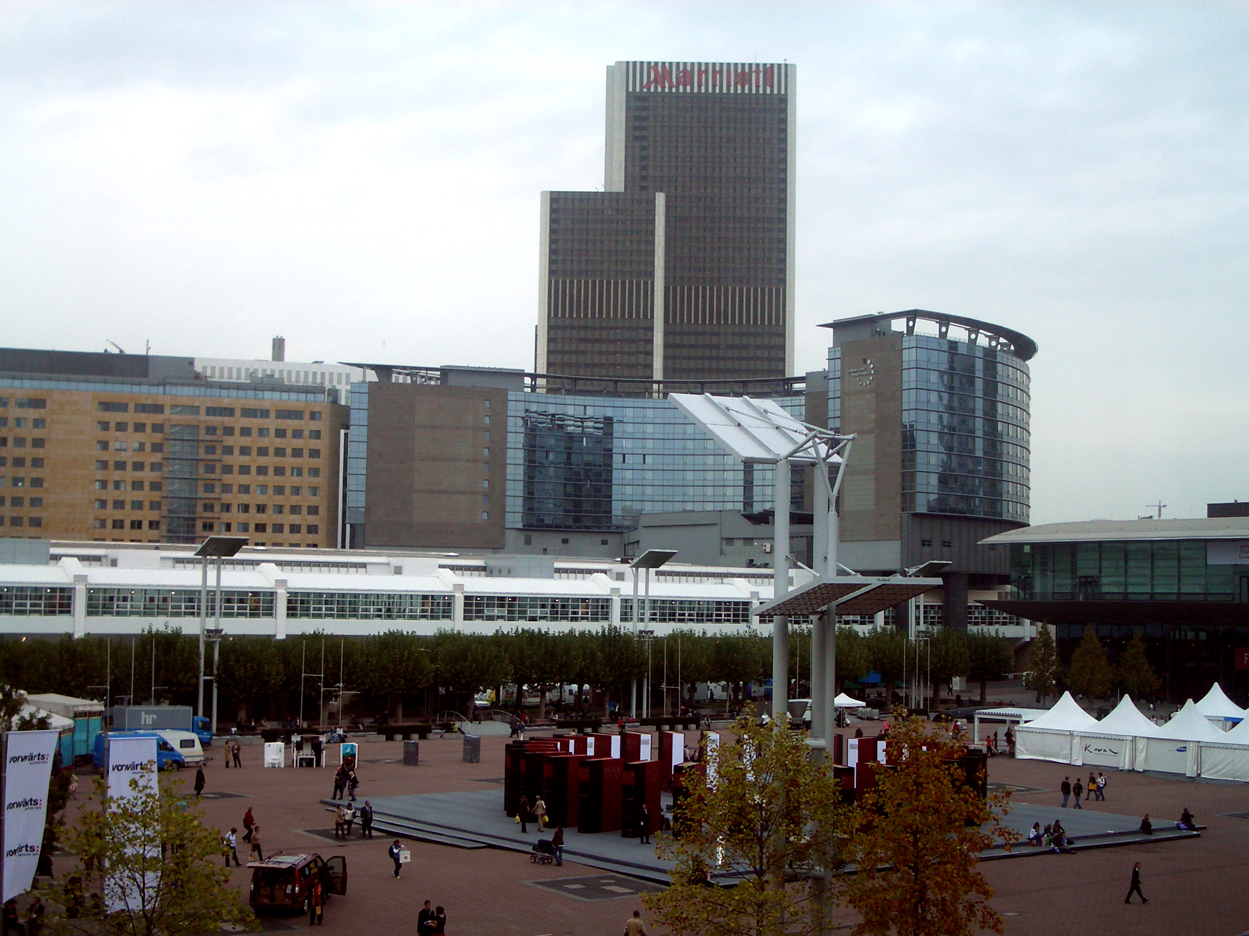 Frankfurt Bookfair, October 2005